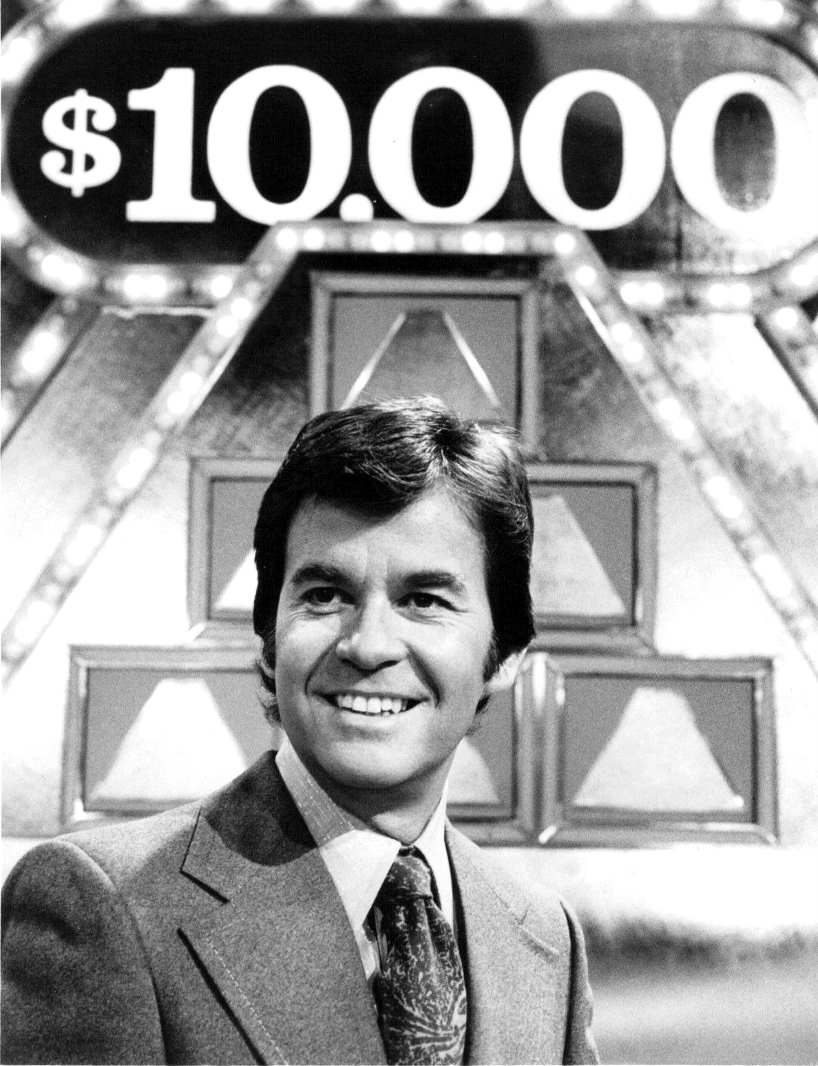 Publicity photo of Dick Clark as host of the television game show The $10,000 Pyramid.